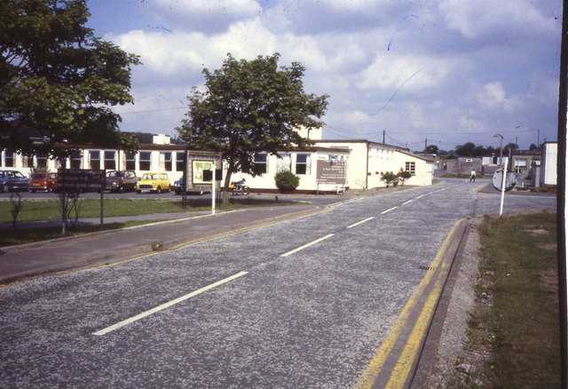 Law Hospital Services now switched to Wishaw General. The former maternity unit which is a much newer building is the base of NHS Lanarkshire